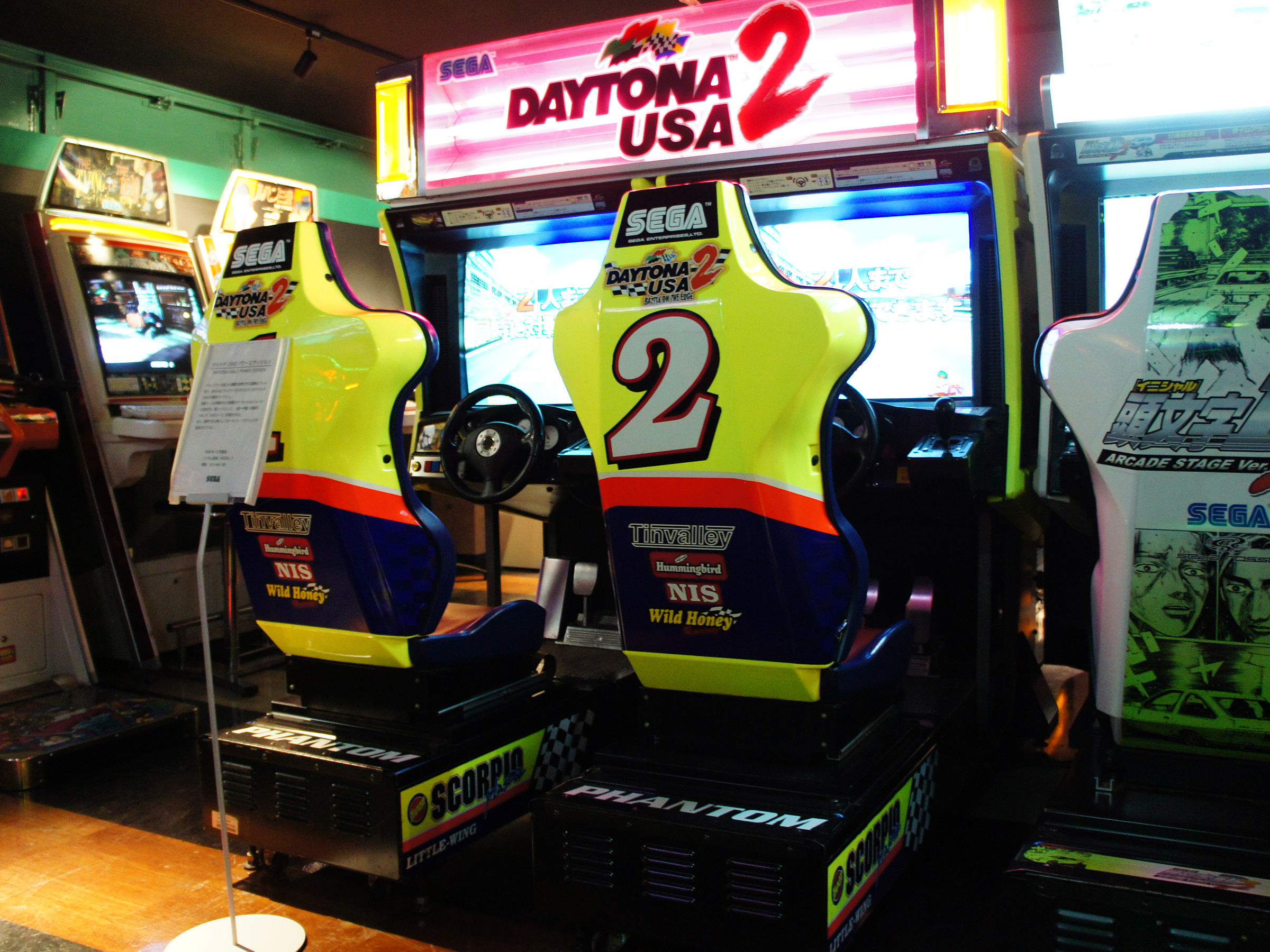 SEGA's DAYTONA USA2.